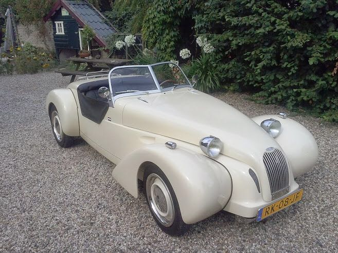 Burton kitcar frontside